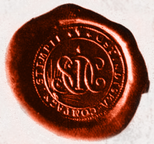 The small seal of the Swedish East India Company during the fourth charter 1806 to 1813. Museum of Gothenburg. Through Project Runeberg.